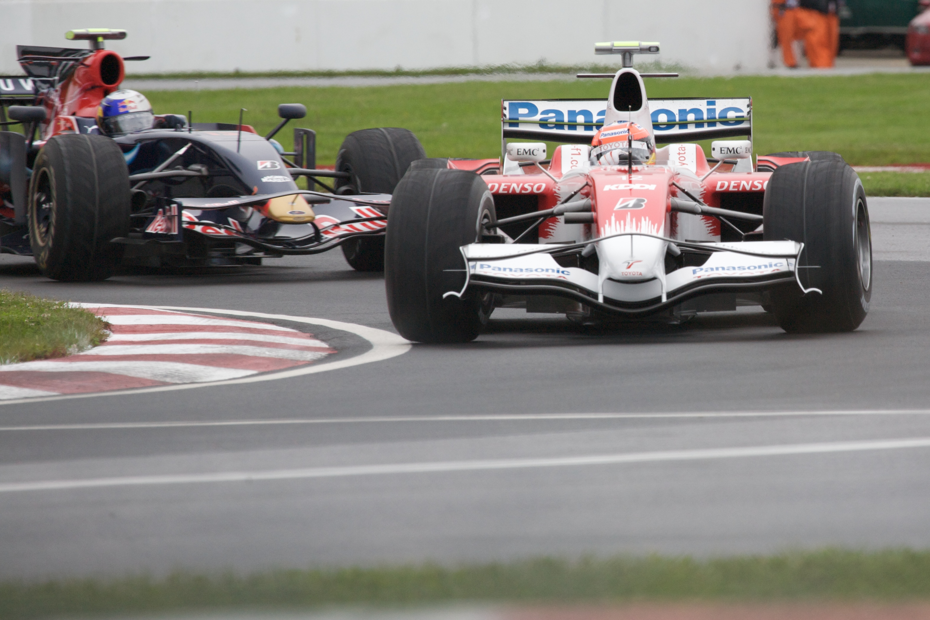 Timo Glock driving for Toyota F1 at the 2008 Canadian Grand Prix.